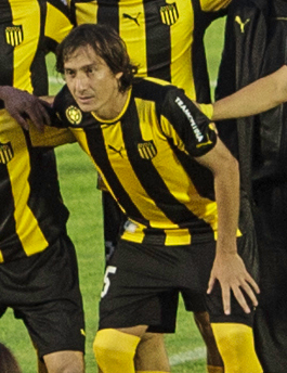 Peñarol player Aureliano Torres posing for cameras before the start of the group phase game between Peñarol and Vélez Sarsfield in the Centenario stadium in Montevideo, Uruguay.